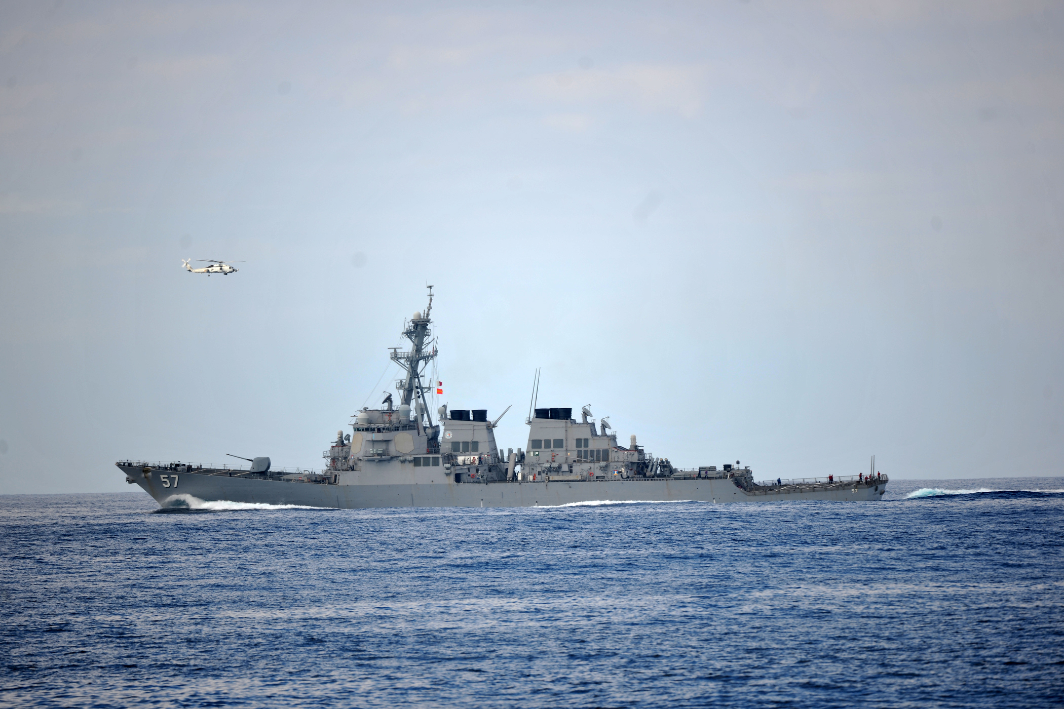 ATLANTIC OCEAN (Nov. 29, 2011) An MH-60R Sea Hawk helicopter assigned to Helicopter Maritime Strike Squadron (HSM) 70 flies above the guided-missile destroyer USS Mitscher (DDG 57). Mitscher is deployed as part of the George H.W. Bush Carrier Strike Group supporting maritime security operations and theater security cooperation efforts in the U.S. 6th Fleet area of responsibility. (U.S. Navy photo by Mass Communication Specialist 2nd Class Tony D. Curtis/Released)